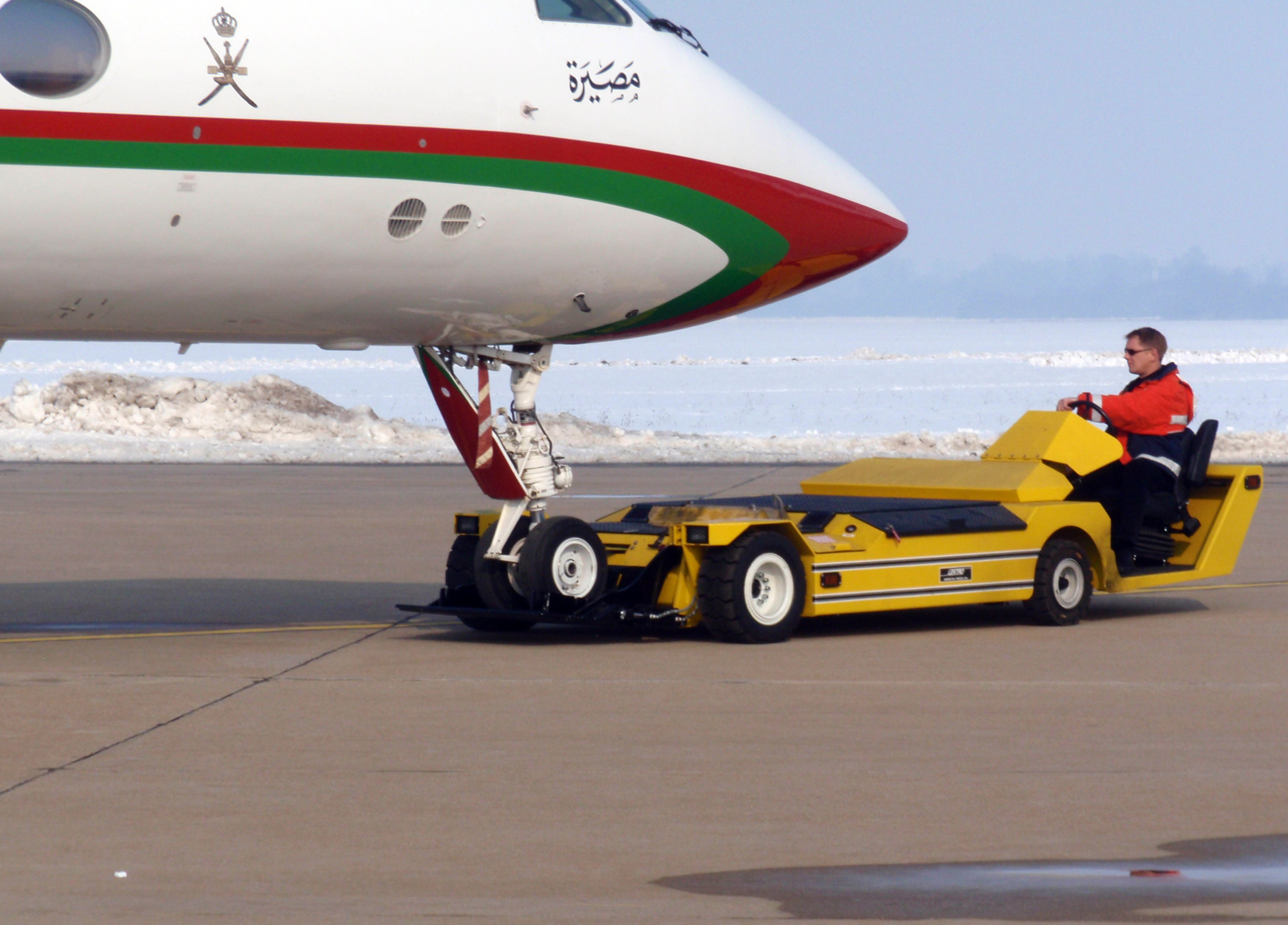 Towing with Lektro battery-driven vehicles